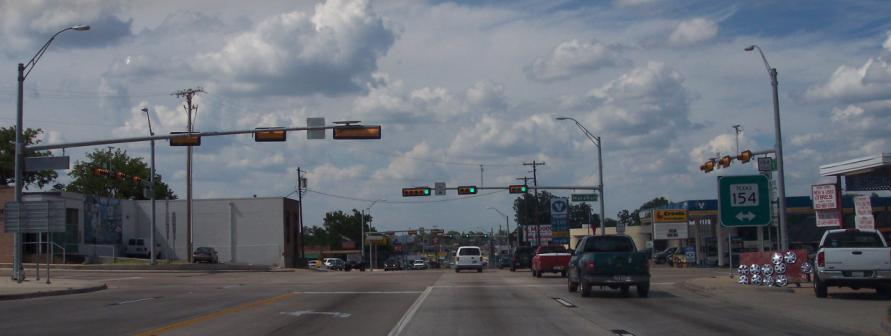 Gilmer, Texas (Hwy. 271 North)